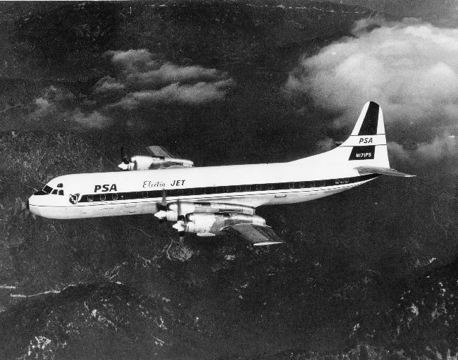 PSA Lockheed Electra Repository: San Diego Air and Space Museum Archive